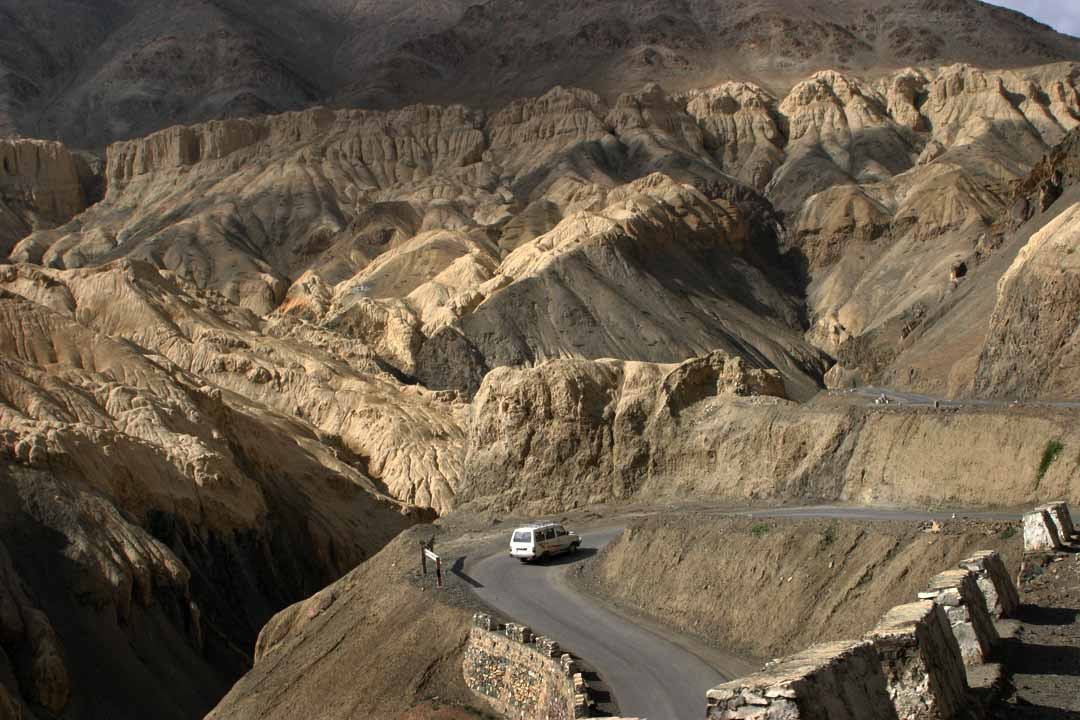 Uploaded on September 9, 2007 by babasteve. The Ladakh Highway No.3 in India.